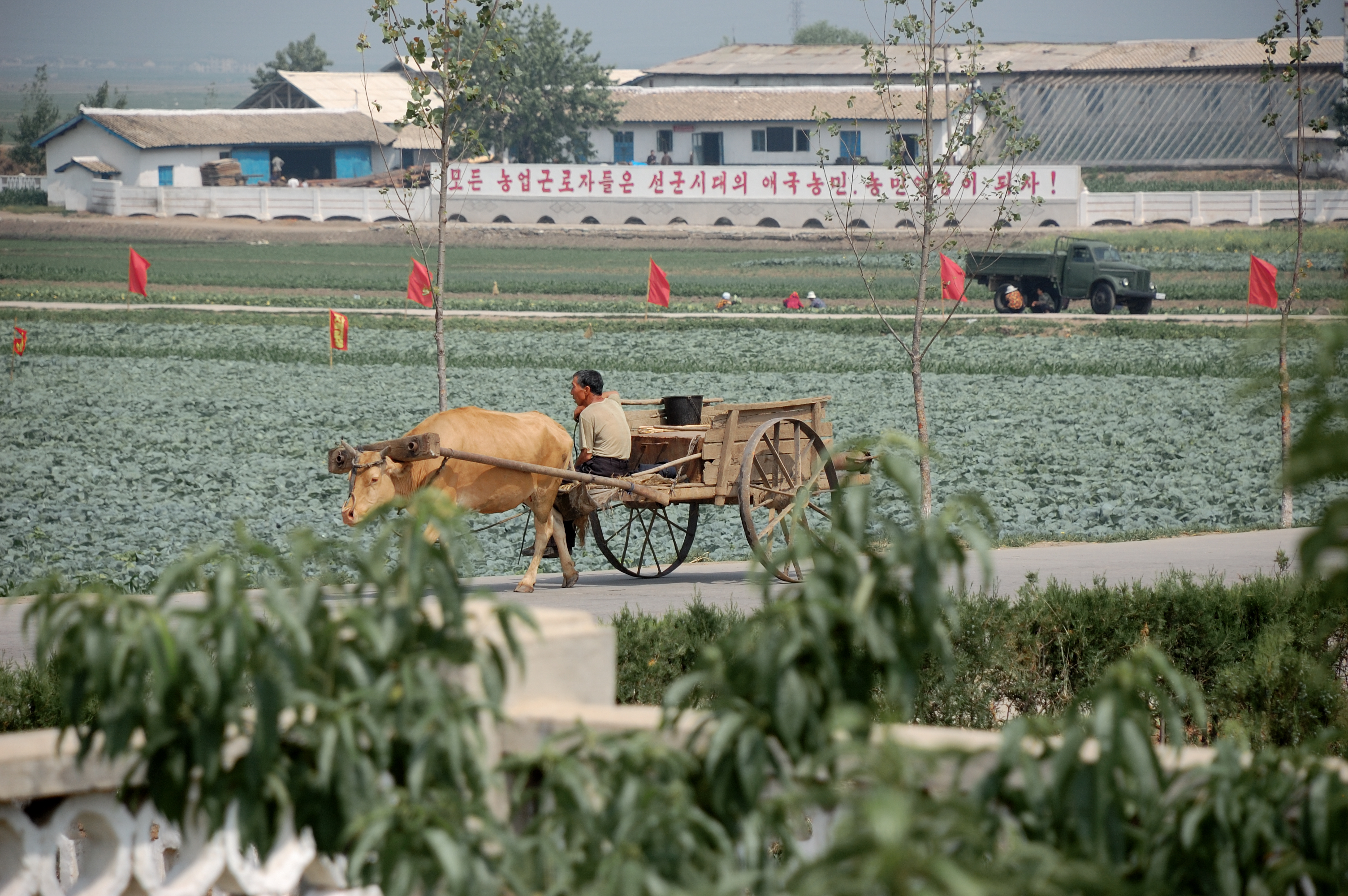 Trip to North Korea in June, 2008